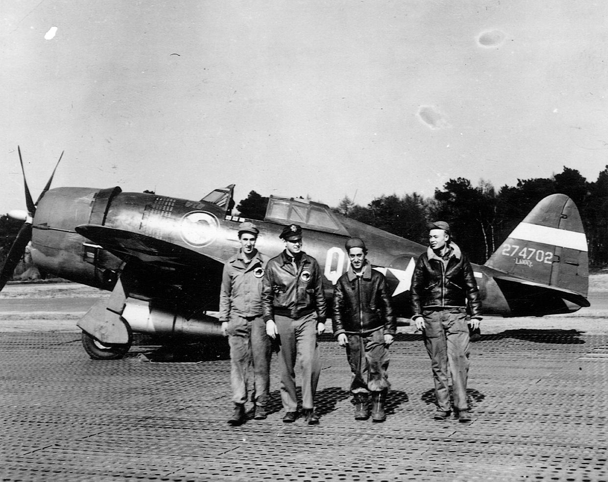 Sergeant Elwin D. Phillips, Lieutenant Sidney Hewitt, Staff Sergeant Michael Yahawk, and a colleague of the 361st Fighter Squadron, 356th Fighter Group stand with Hewitt's P-47 Thunderbolt (QI-F, serial number 42-74702) nicknamed "Clarkie" at Goxhill. Handwritten caption on reverse: '"CLARIE" [sic] 361st Fighter Squadron, Pilot: Sid Hewitt. Standing (L-R) Sgt Elwin D Phillips (arm/ aut C/C) Pilot: lt Sidney Hewitt S/Sgt Michael Yahawk- eng (Crew Chief).'